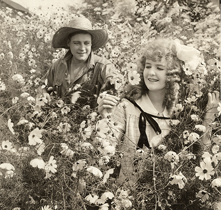 John Tremaine, Jr., played by Harold Lockwood, sits in a field of daisies with Isobel Malvern (May Allison) in a scene still for the 1916 silent drama Big Tremaine.